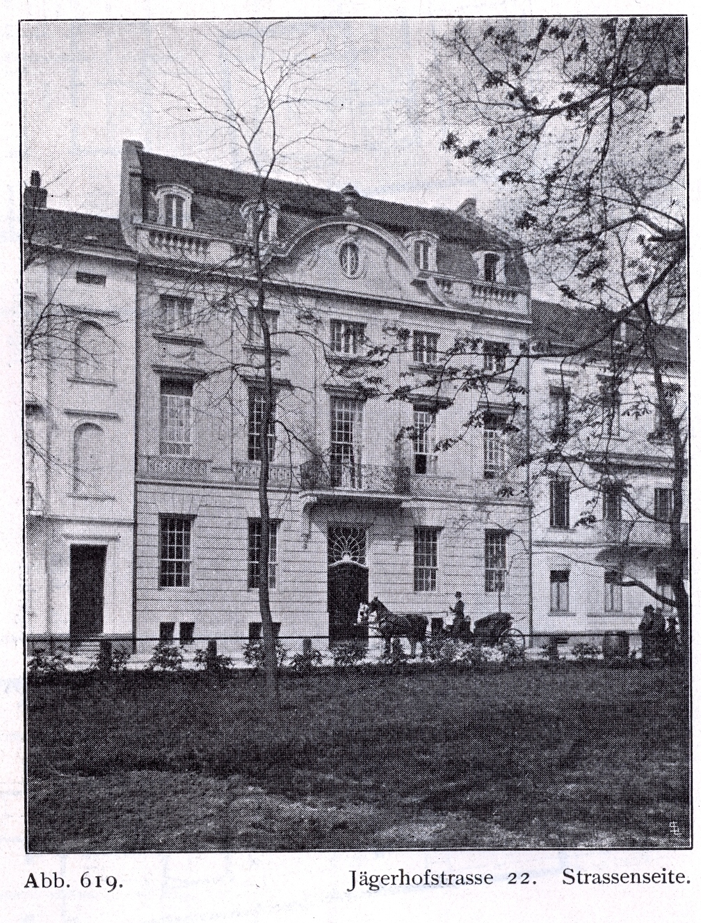 Haus Jägerhofstraße 22 in Düsseldorf, Baurat March, Diele.jpg